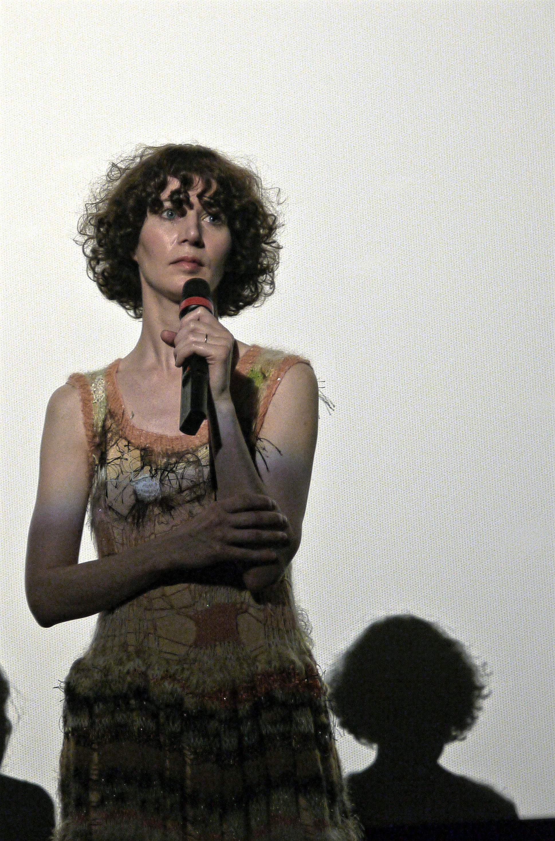 American performing artist, writer, actor and film director Miranda July in the UGC Ciné Cité Bercy in Paris, France, speaking at the première of The Future (2011), a film that she wrote, directed and acted in.